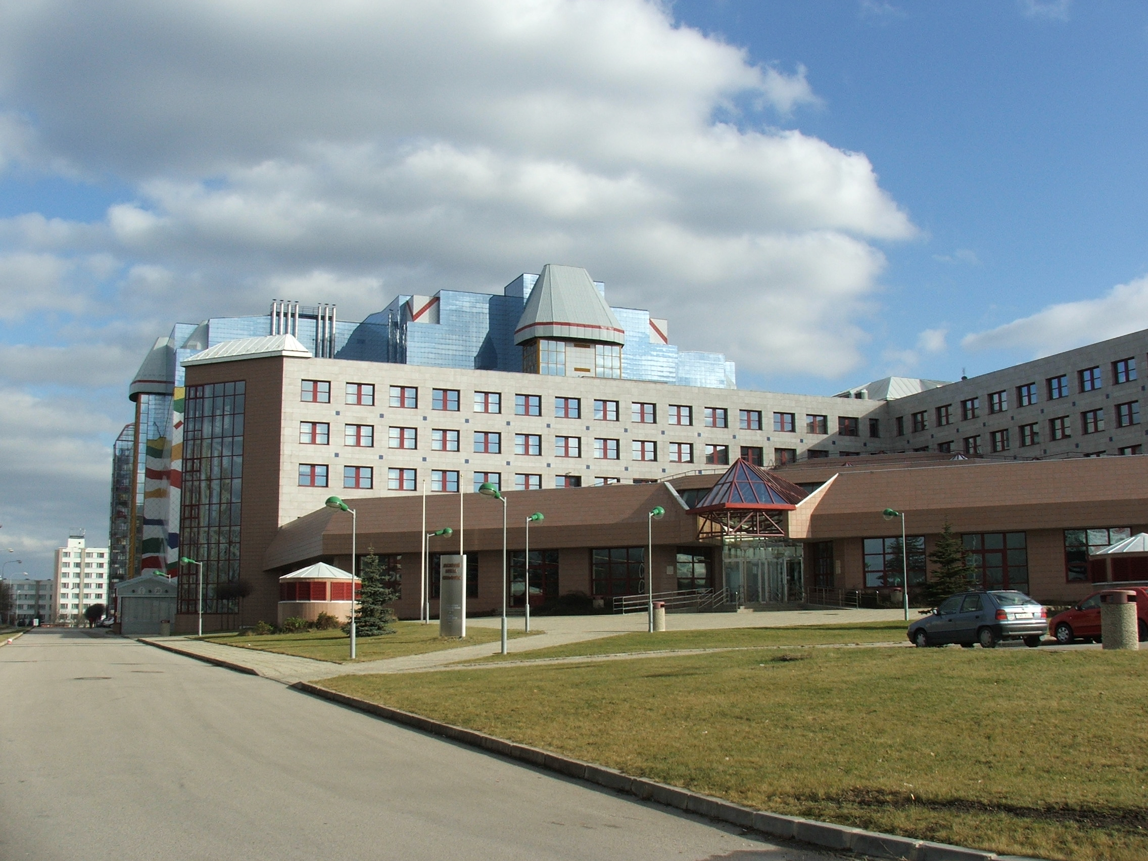 National Archive in Prague - Chodov, (Czechia).